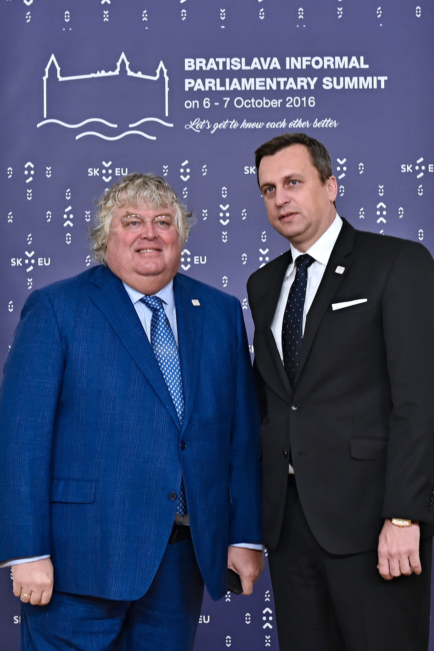 House of Representatives of the Netherlands Mr Ton Elias, First deputy speaker of the House of Representatives - National Council of the Slovak Republic Mr Andrej Danko, Speaker Of The National Council of The Slovak Republic Photo Rastislav Polak